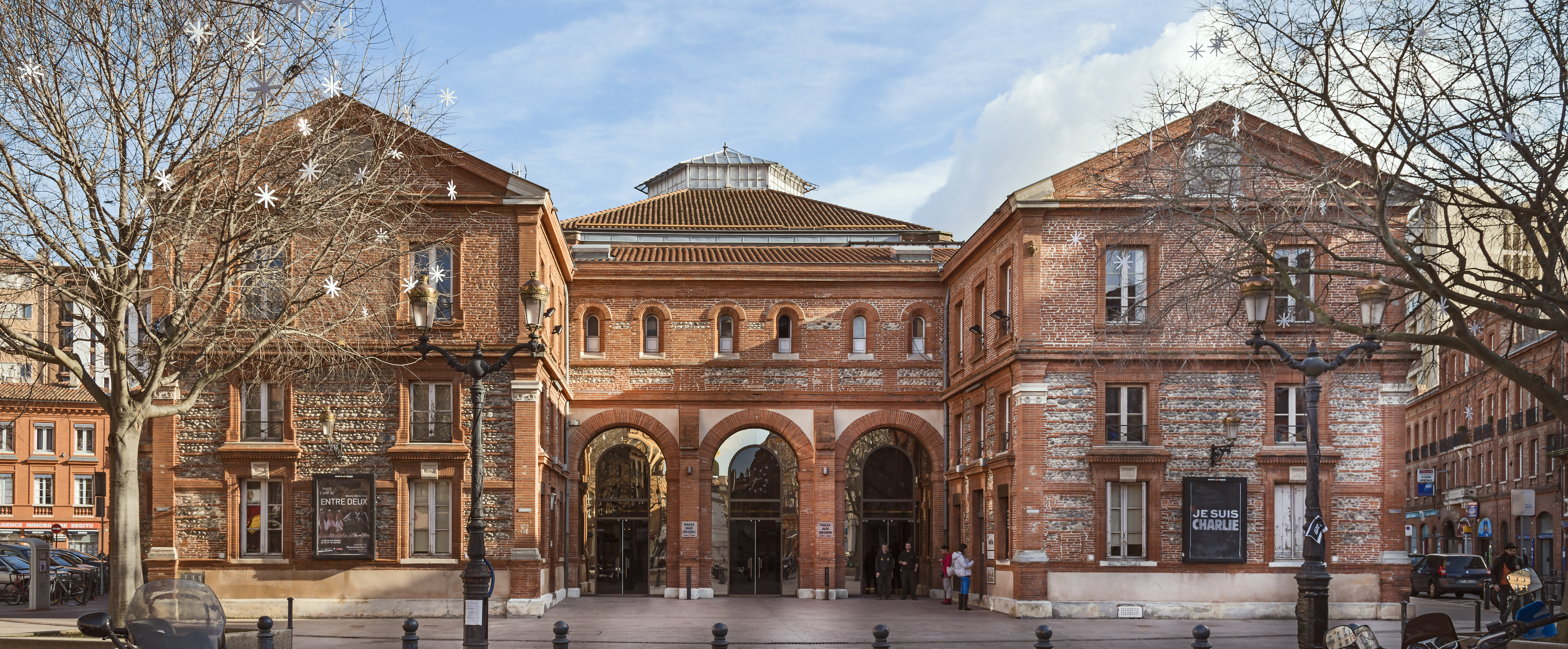 La Halle au grains, concert hall in Toulouse